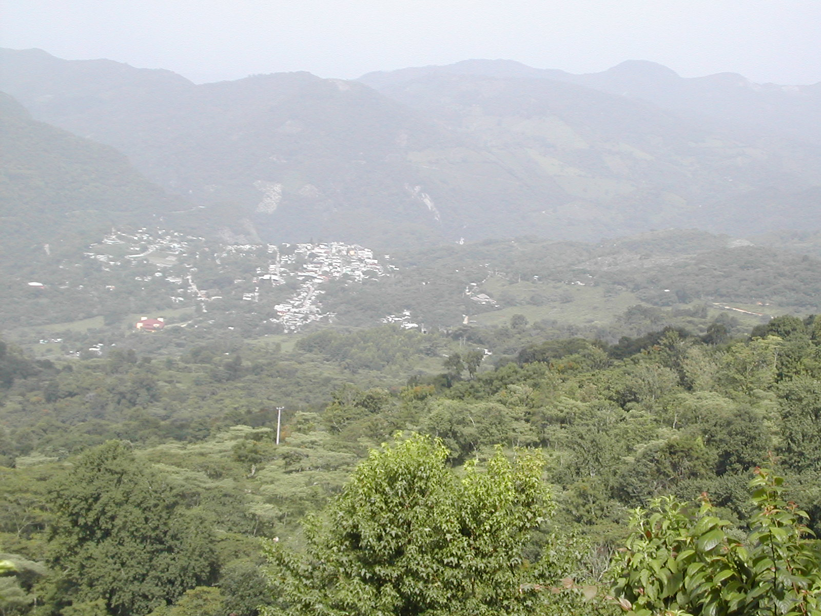 View of the town of Xilitla from the hills to the west, looking across to the hills in the east. The municipal auditorium is the red building at lower-left. The plaza and 16th-century church are at the crest of the hill at the center of town. The layered mountains in the distance are typical of the scenery visible from many parts of the municipality.